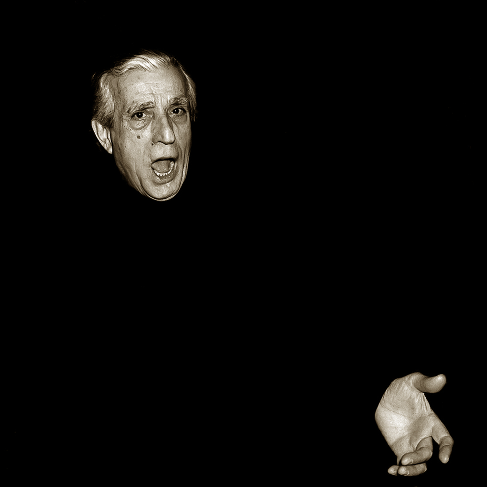 Portrait of Sergio Bruni: Portrait done to show at the House of Representatives (Camera dei Deputati) - Rome